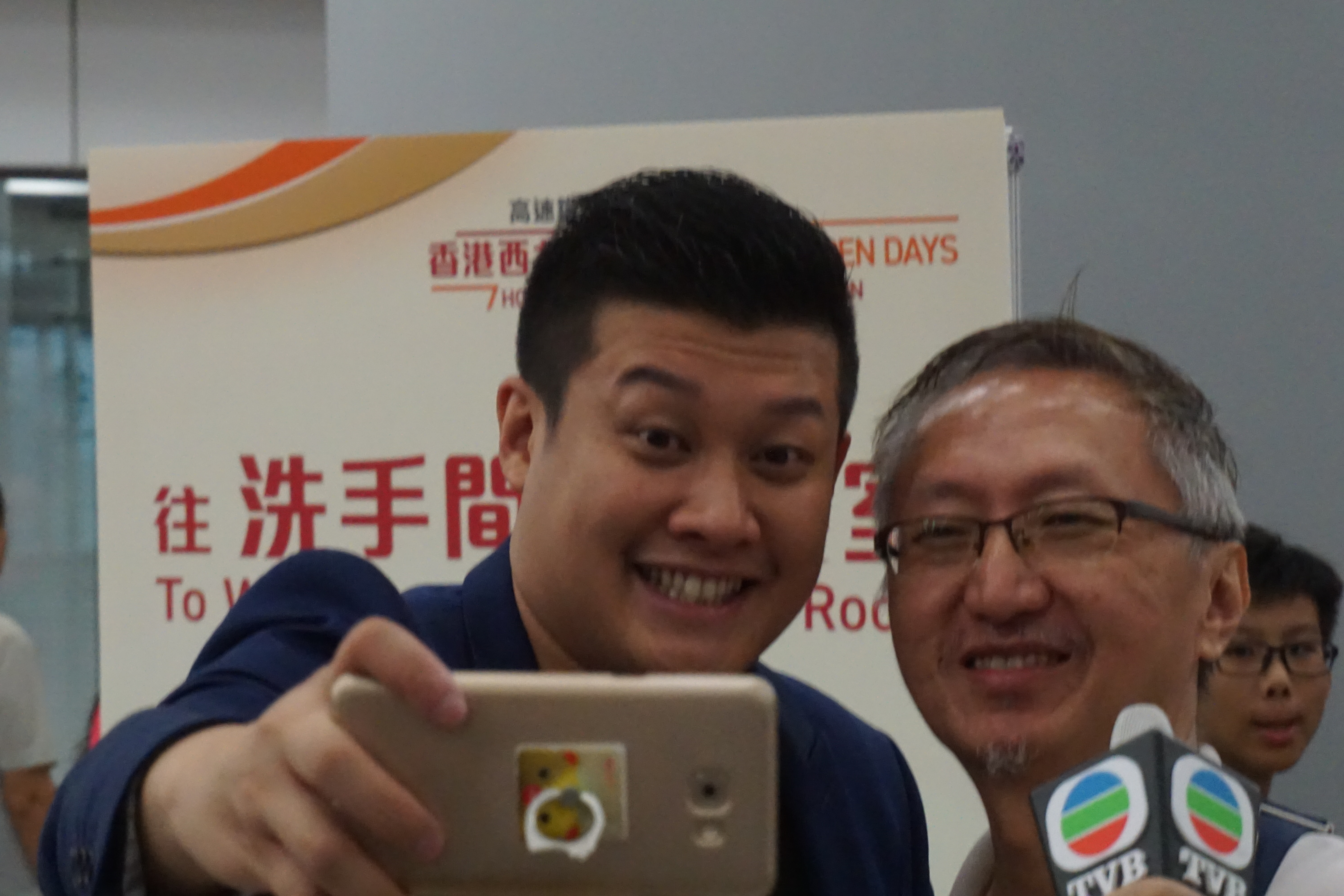 Joe Yau, Hong Kong TVB artist.